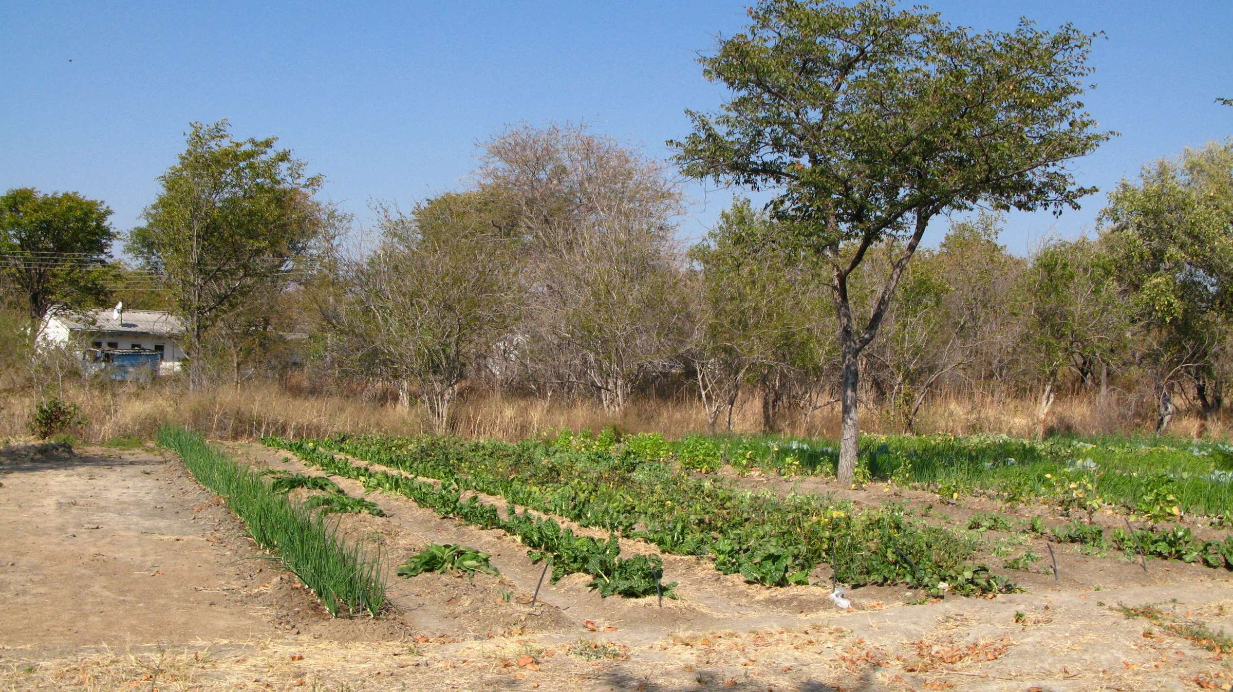 Hwange. Gardens